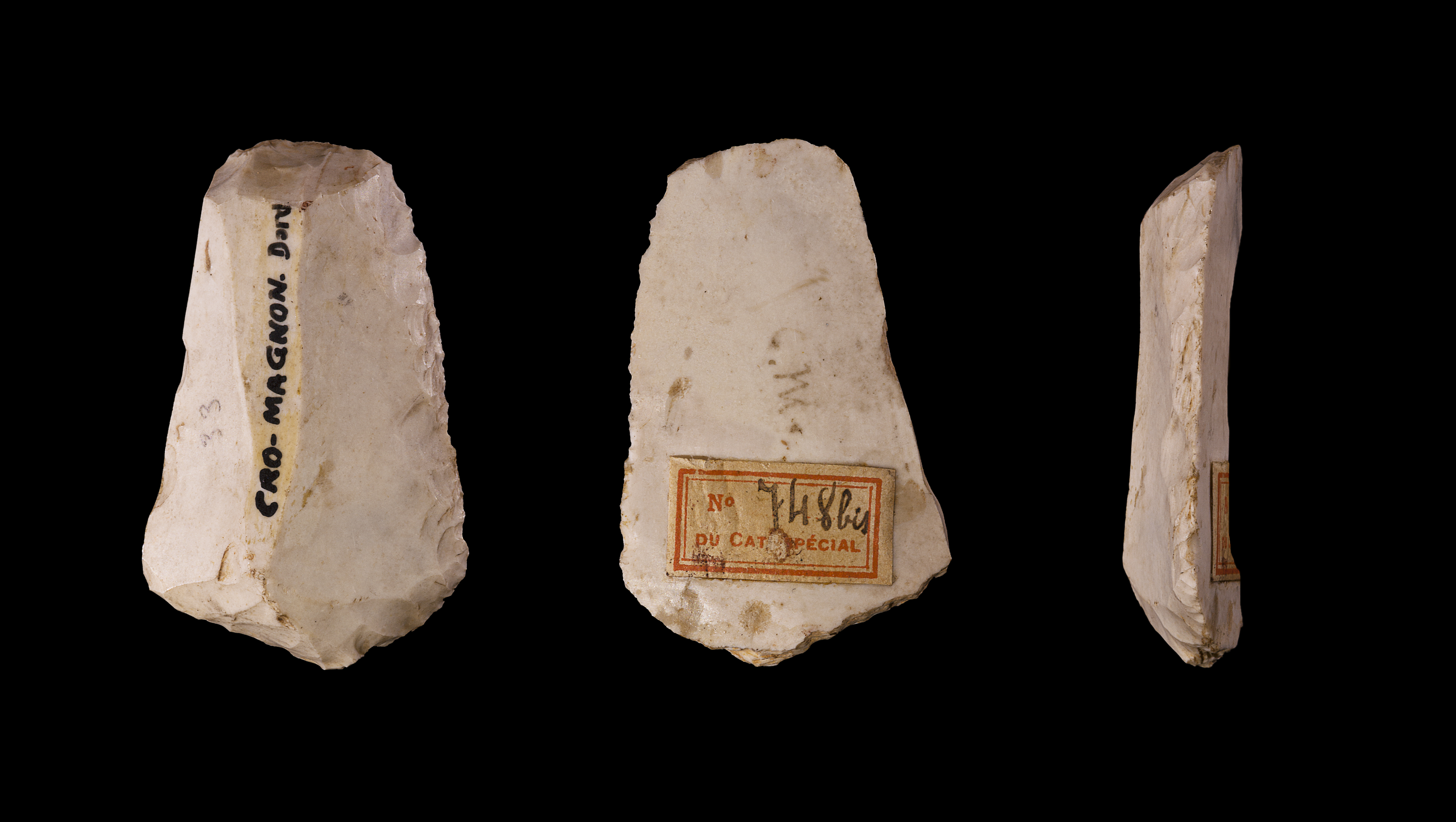 Double edged Scraper on blade . Different views of the same specimen.